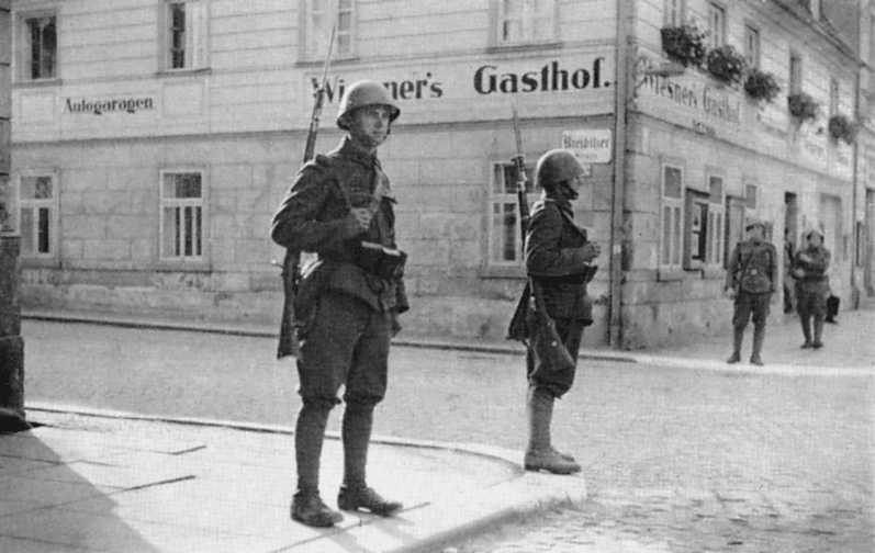 Czechoslovak soldiers in Krásná Lípa - October 1938